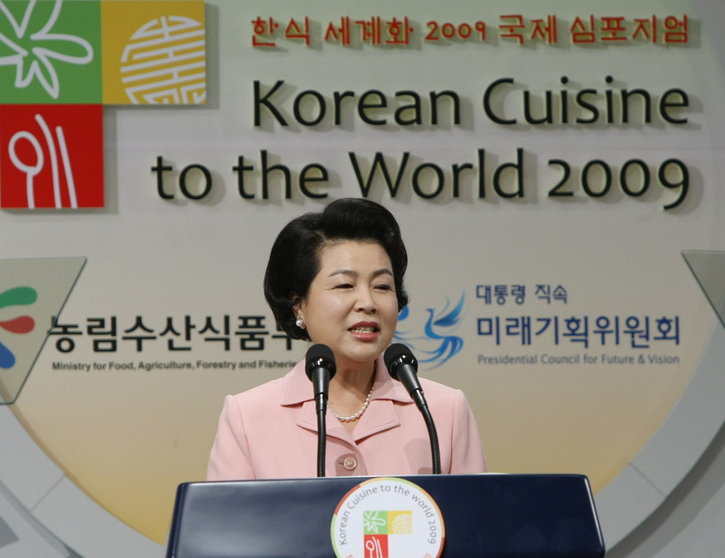 About 300 key officials, CEOs and food experts joined the event, including First Lady Kim Yoon-ok. The symposium highlighted three key themes – world food trends and Hansik (Korean food) positioning, case studies of successful international foods, and Hansik's globalization strategy.